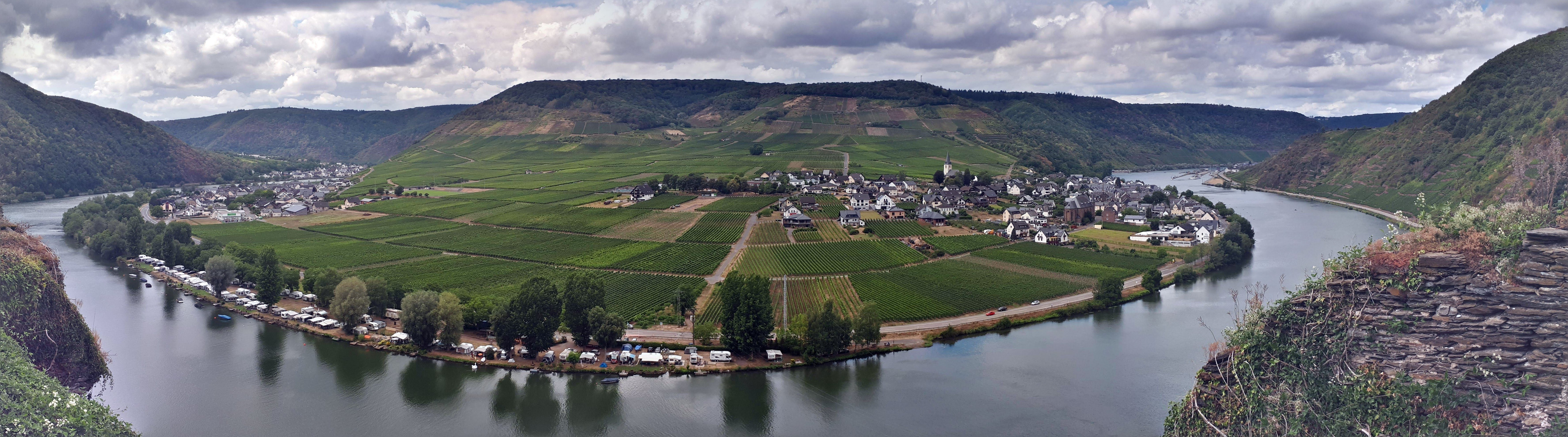 View from Metternich Castle on Moselle